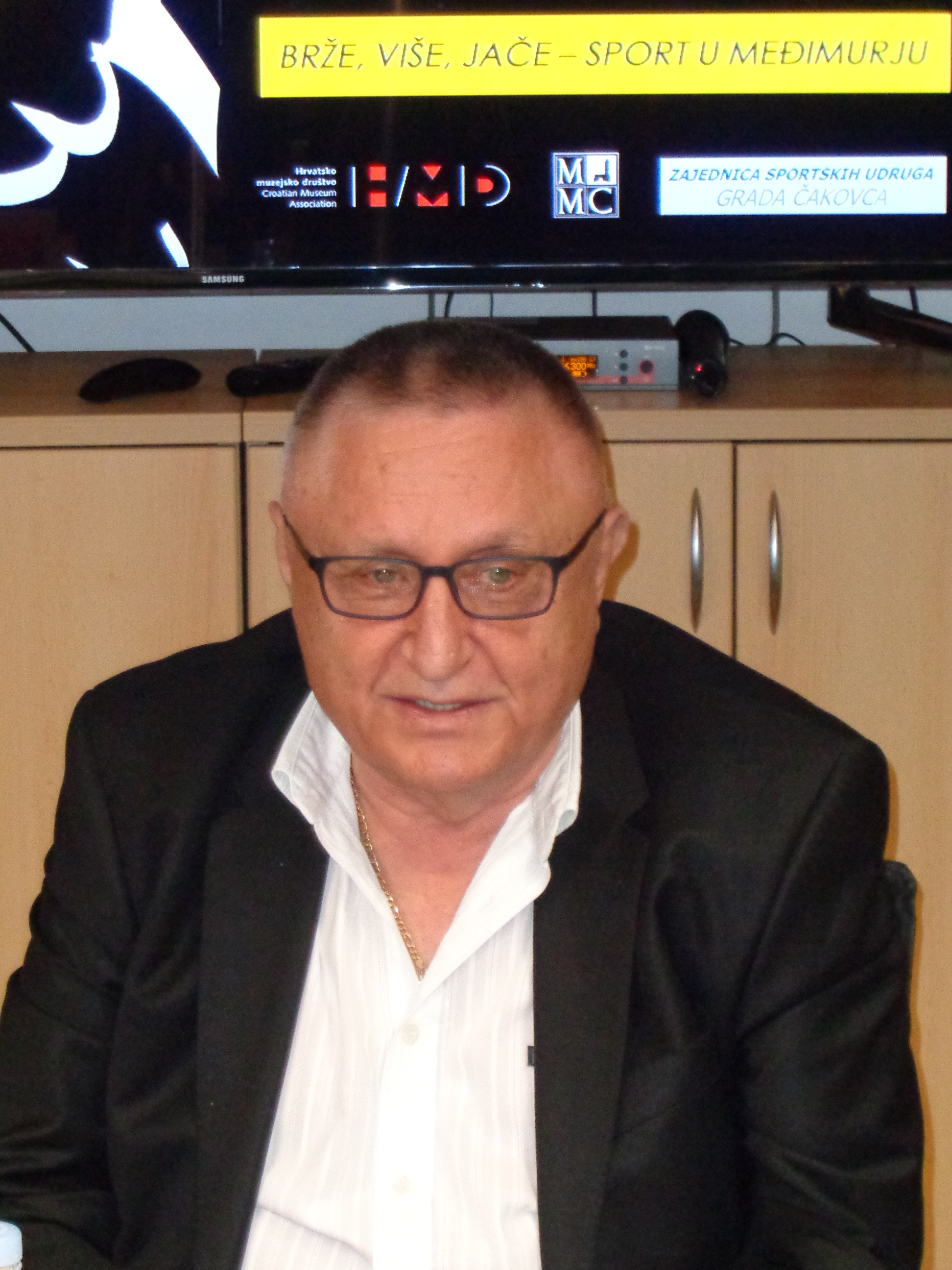 Željko Kavran, former Croatian handball player and chairman of the Croatian Handball Federation (1995-2008.), during the 2018 Night of Museums in Čakovec